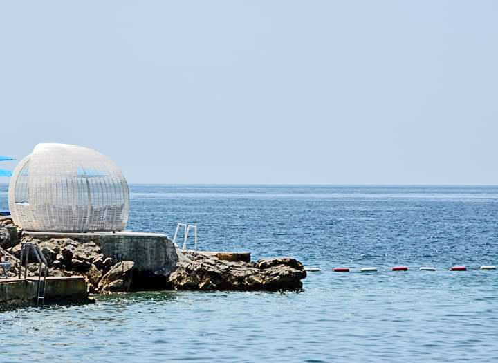 Žanjice beach in Bay of Kotor, Montenegro